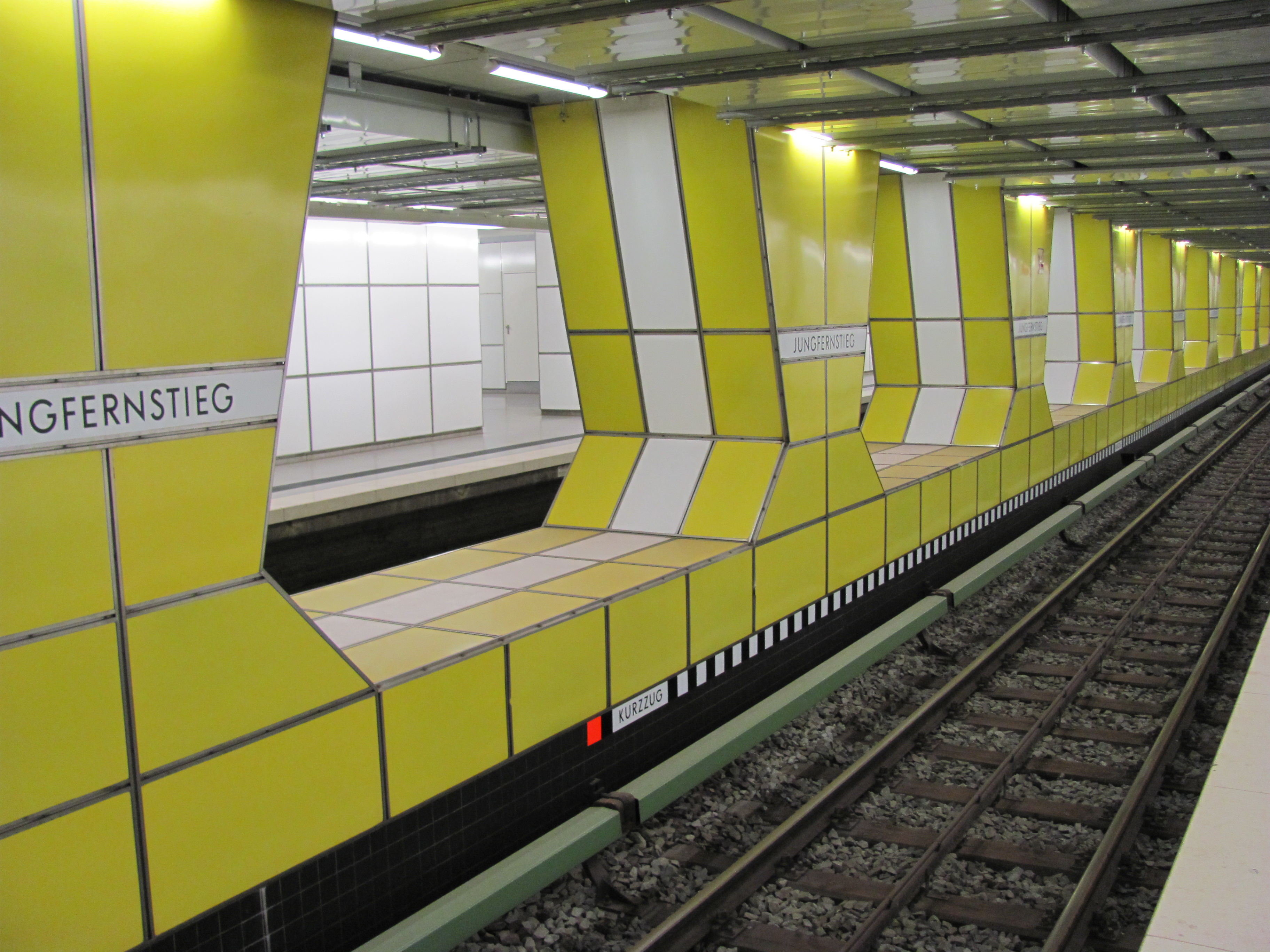 U-Bahn station Jungfernstieg in Hamburg, Germany